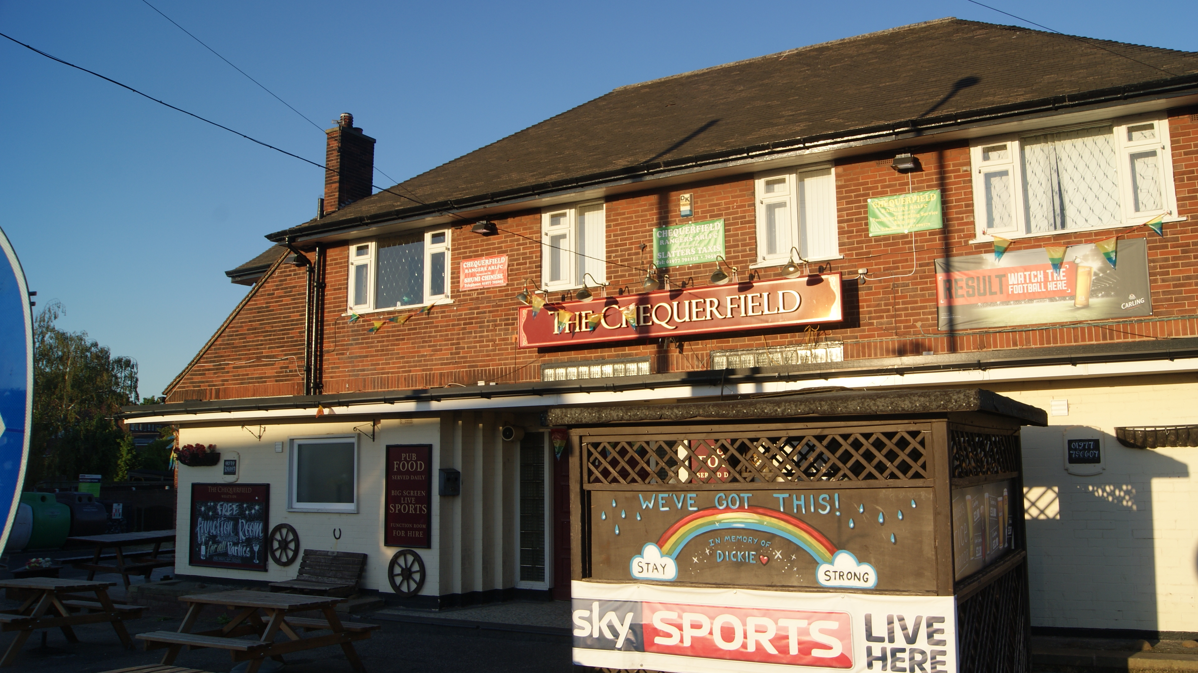 Chequerfield Hotel, The Circle, Pontefract, West Yorkshire temporarily closed due to the COVID-19 pandemic. Taken on the evening of Monday the 1st of June 2020.